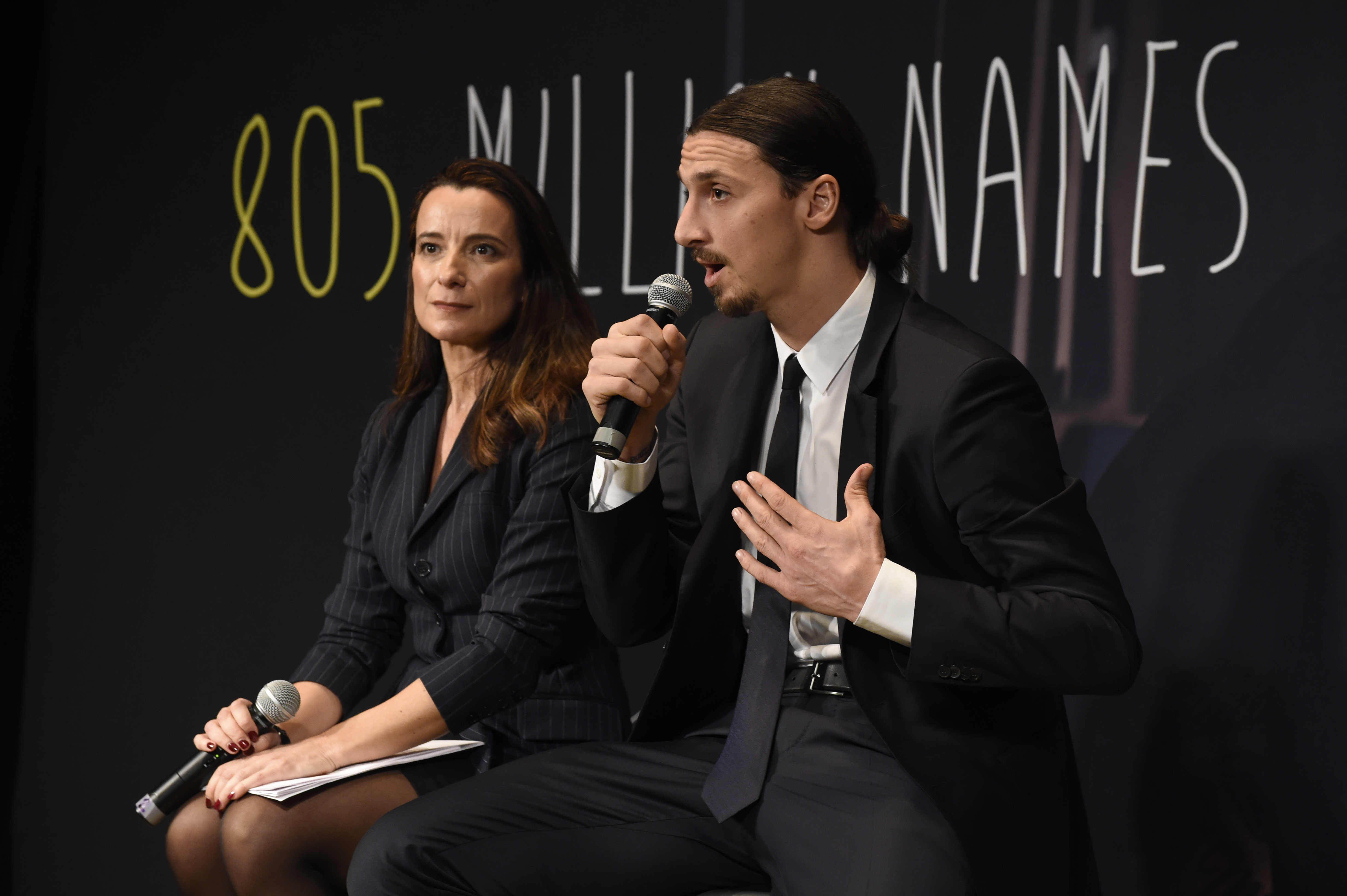 “805 million names” Press conference with Zlatan Ibrahimovic PHOTO JEAN-MARIE HERVIO / TEAMPICS / PSG